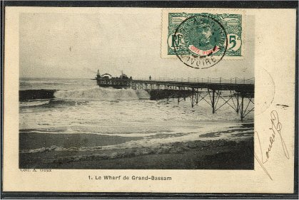 Grand-Bassam: the pier.